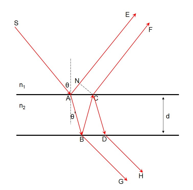 The equal inclination interference from a parallel plate.